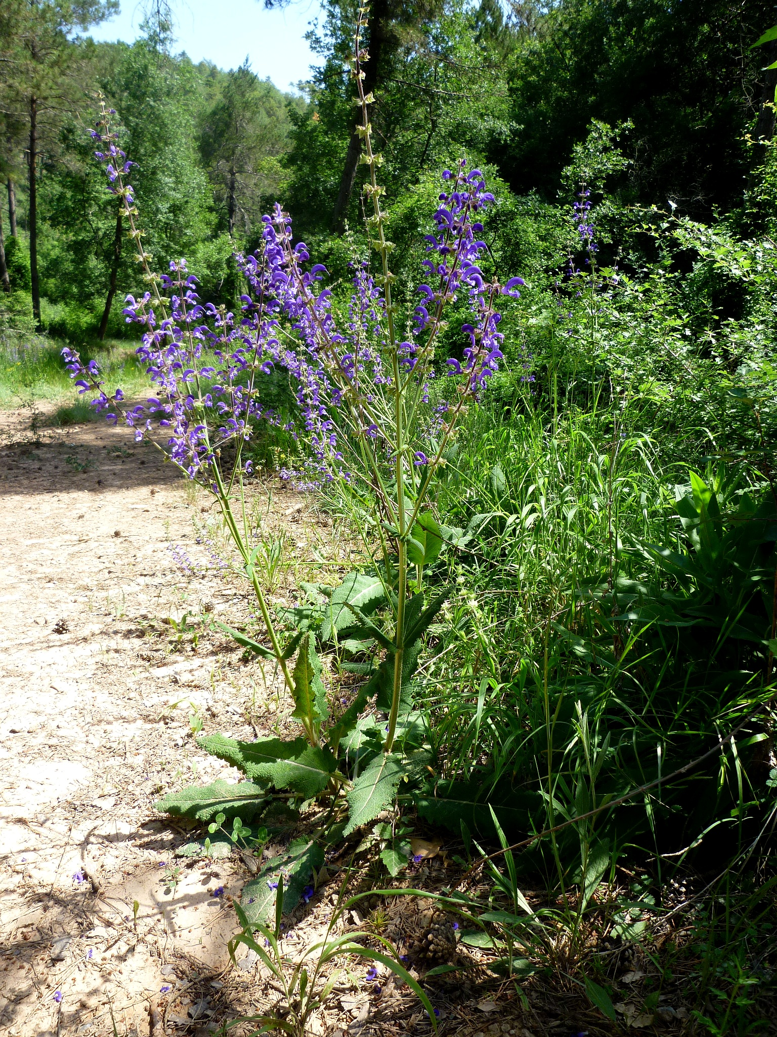 Salvia verbenaca . In Pinós (Solsonès - Catalunya). To 610 m. altitude